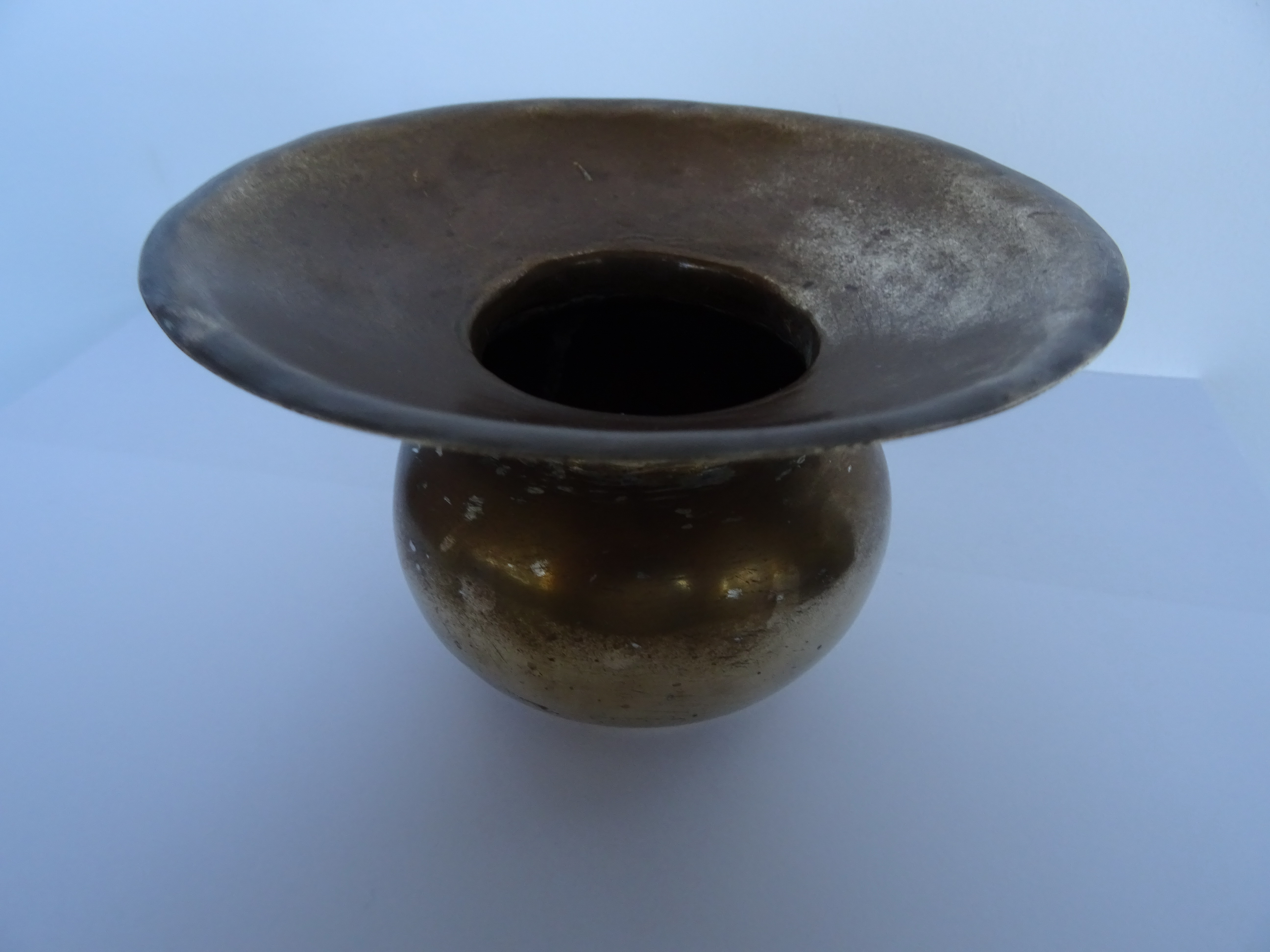 Spittoon, copper, 1890